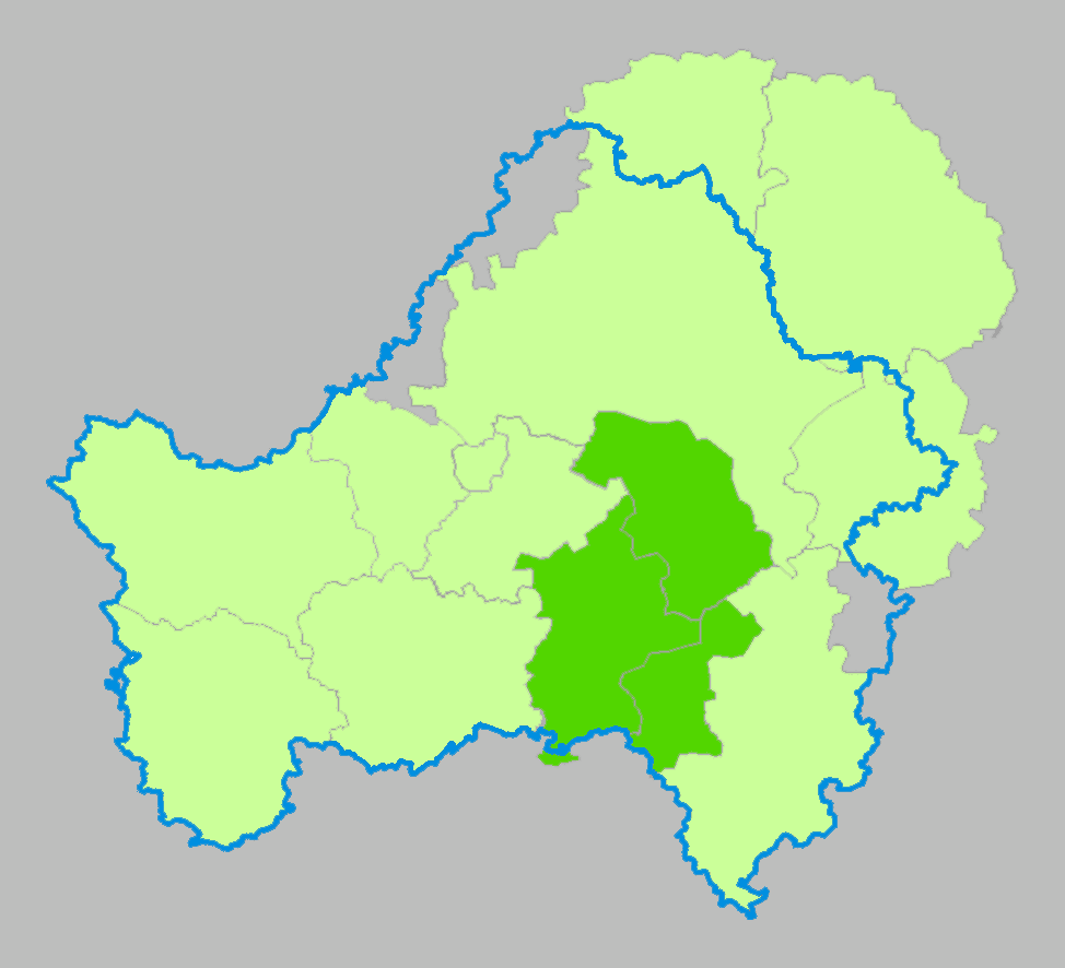 Trubchevsky uezd location on the map of Bryansk gubernia